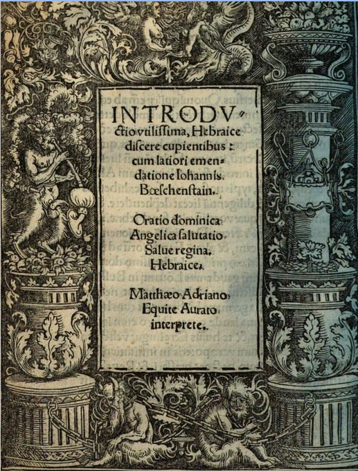 Introductio utilissima Hebraice discere cupientibus, 1520